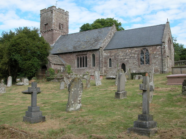 Church at Llanvetherine Llanwytherin. The church is dedicted to St James the Elder.